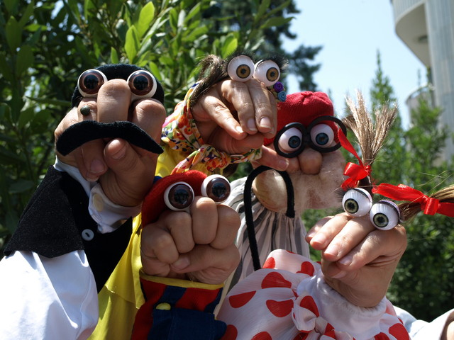 Five bare-hand Oobi puppets with acrylic eyes and fabric costumes